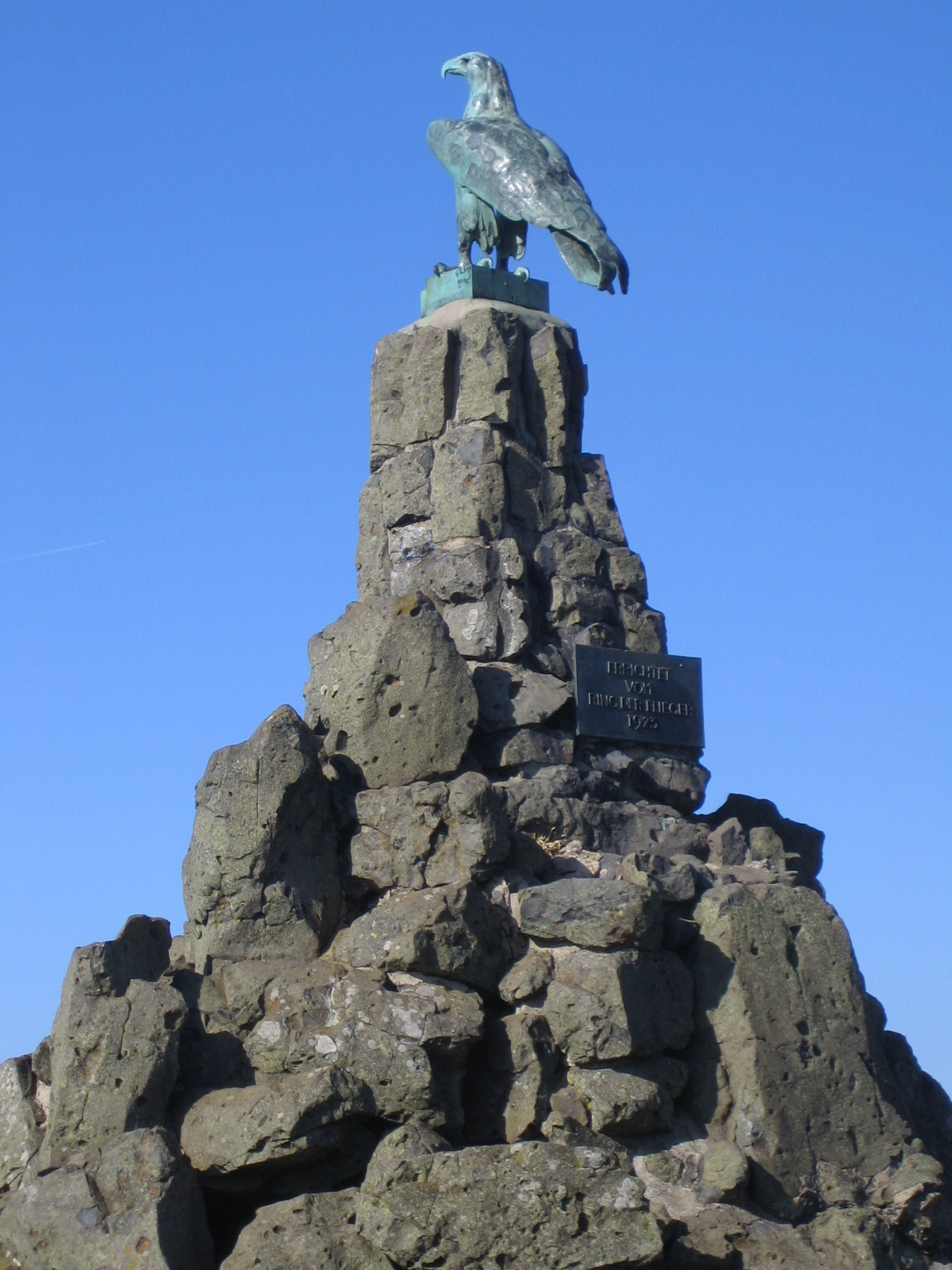 Memorial for Glider-Pilots on the Wasserkuppe in Germany